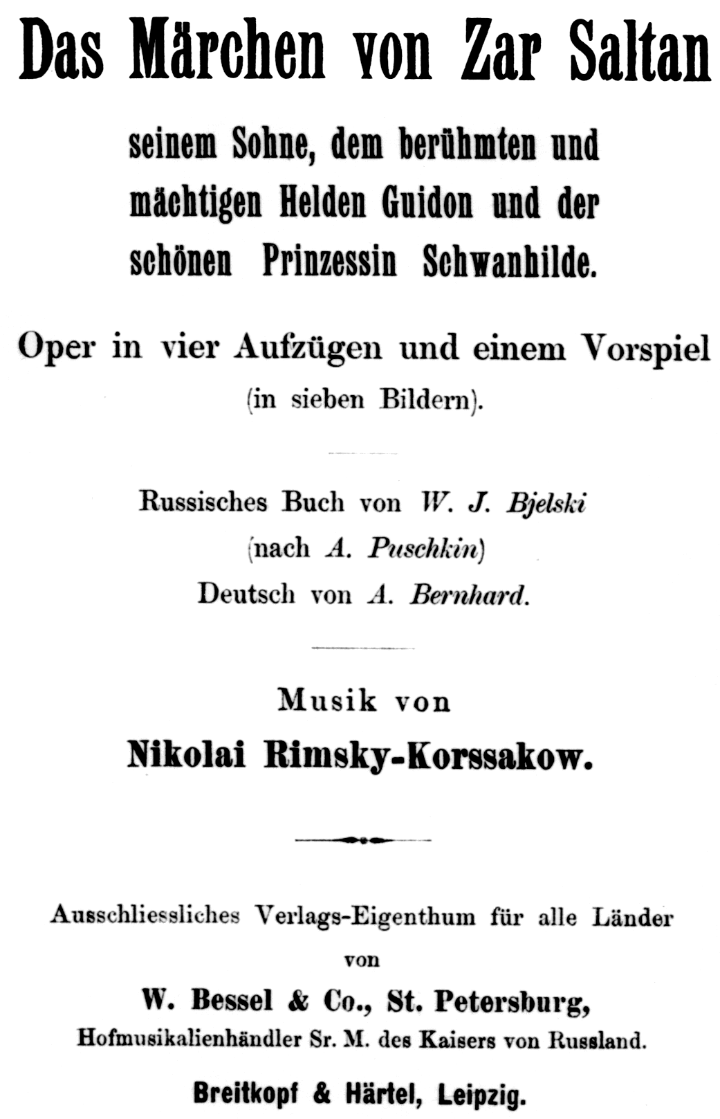 Rimsky-Korsakov - The Tale of Tsar Saltan - title page of the german libretto translation by August Bernhard